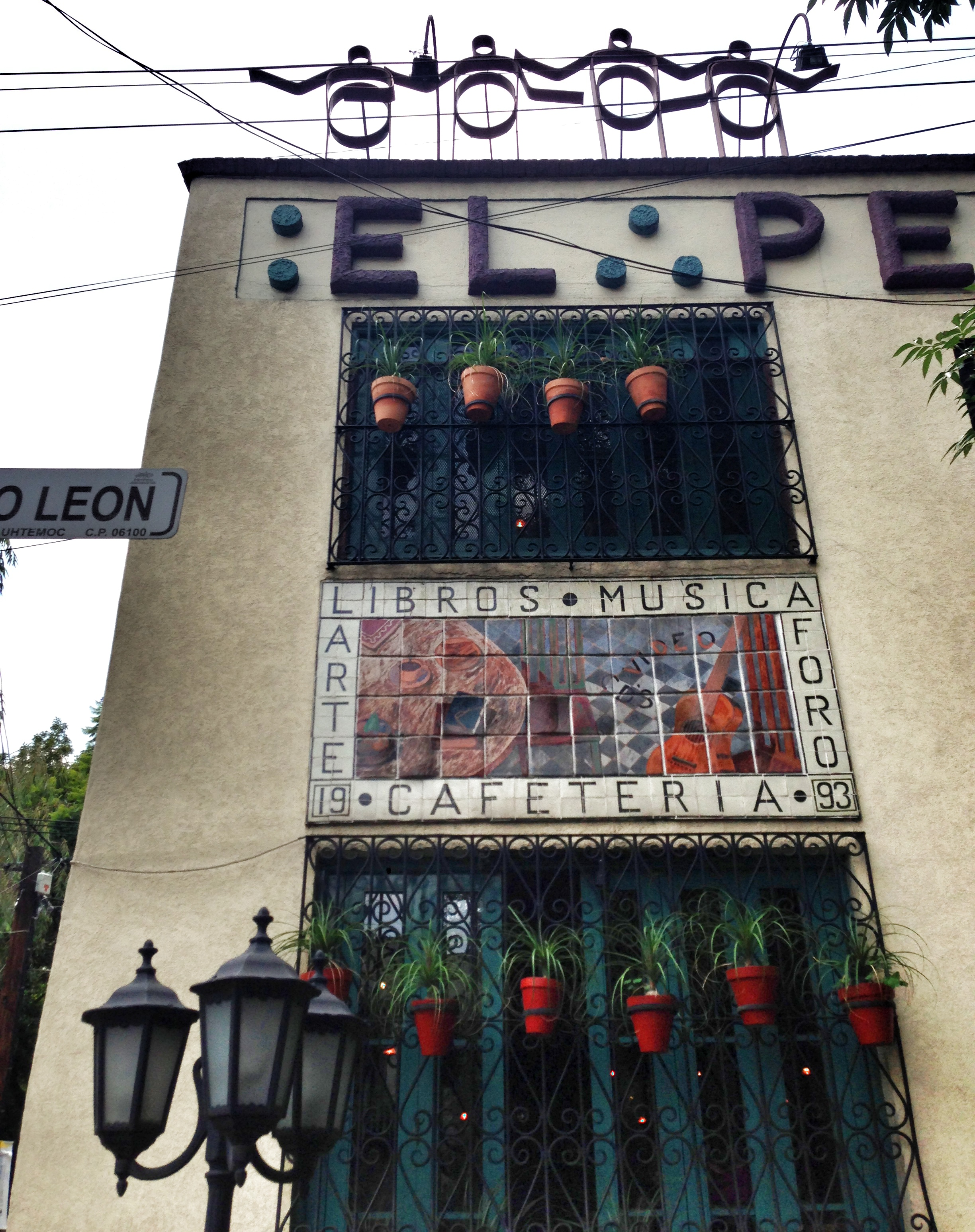 El Péndulo bookstore and cafe, Av. Nuevo León, col. Hipódromo, Condesa